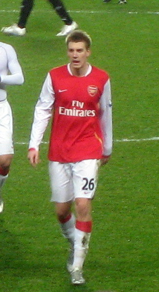 Danish football (soccer) player Nicklas Bendtner